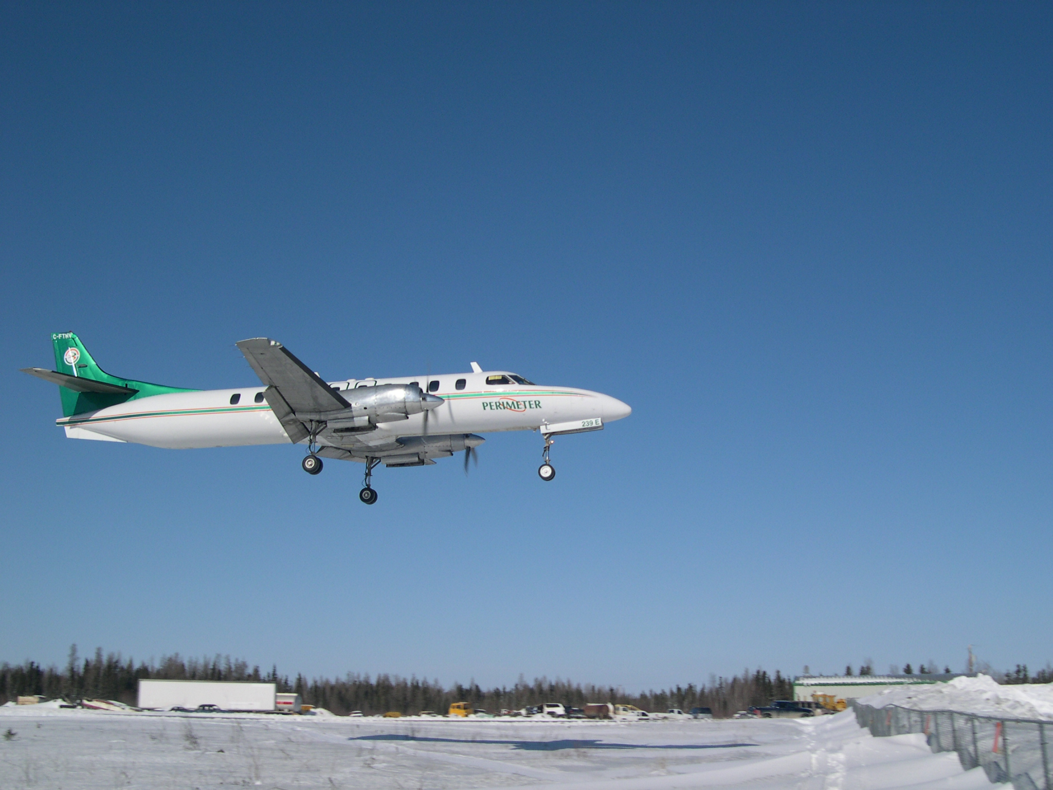 Perimeter Metroliner landing at Tadoule Lake, Manitoba.